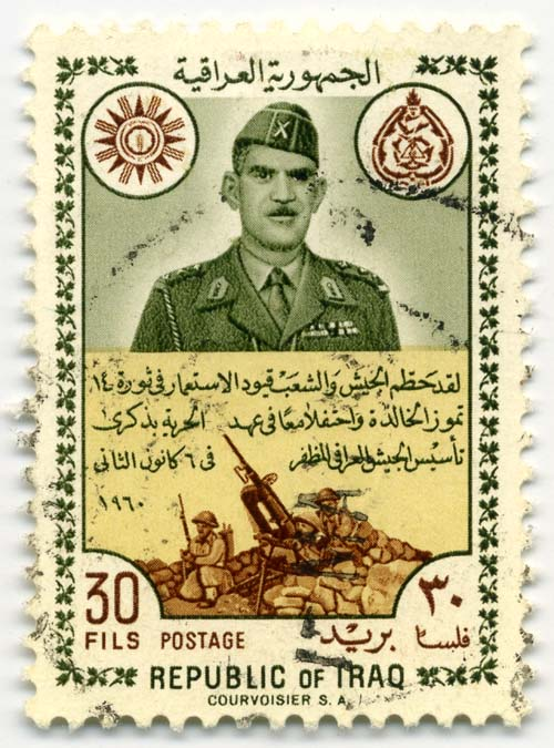 Iraq 30-fils stamp Army Day 1960.